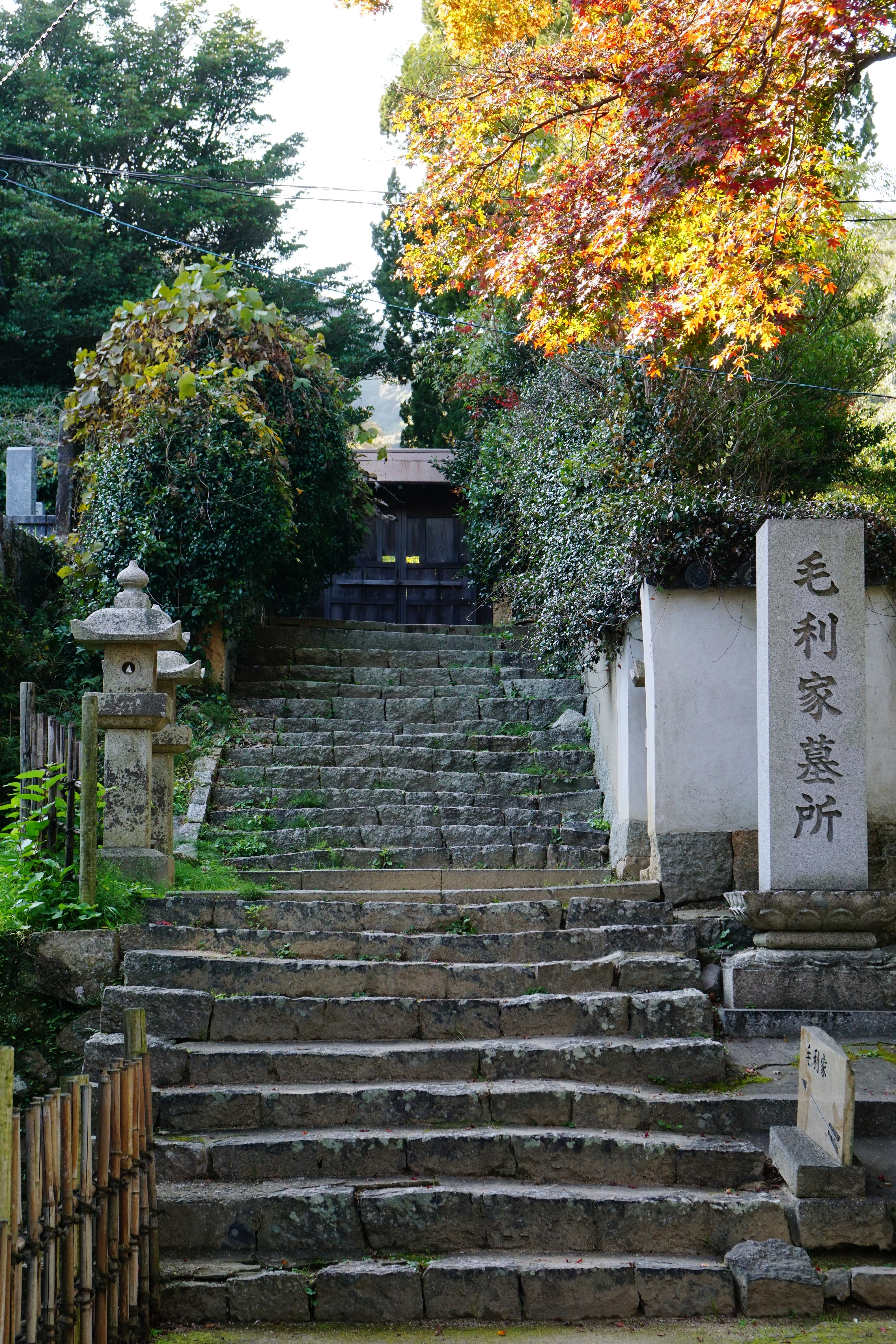 Kōzan-ji in Shimonoseki, Yamaguchi prefecture, Japan.